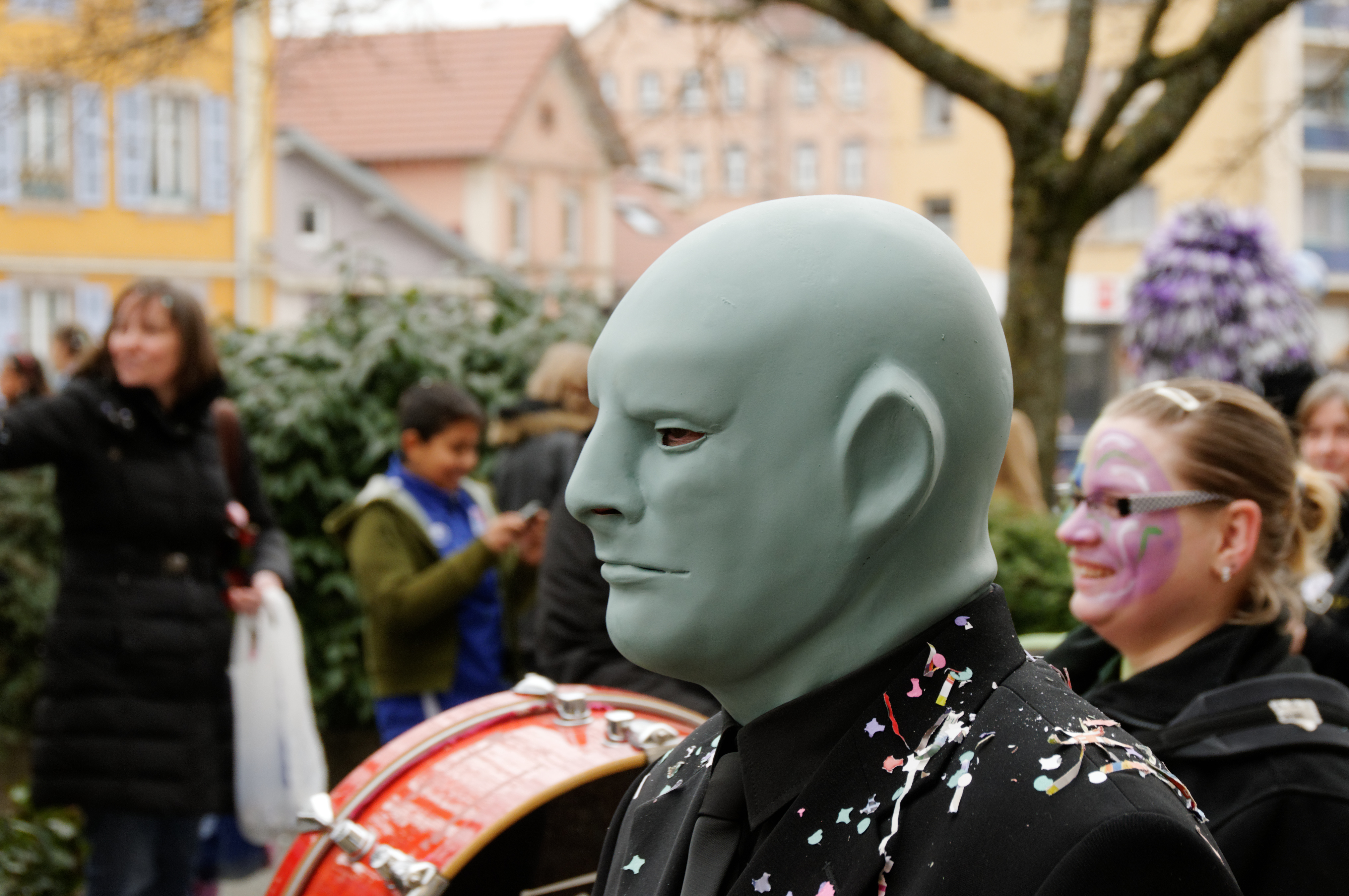 This photograph was taken with a Nikon D300 Personality rights warningAlthough this work is freely licensed or in the public domain, the person(s) shown may have rights that legally restrict certain re-uses unless those depicted consent to such uses. In these cases, a model release or other evidence of consent could protect you from infringement claims.